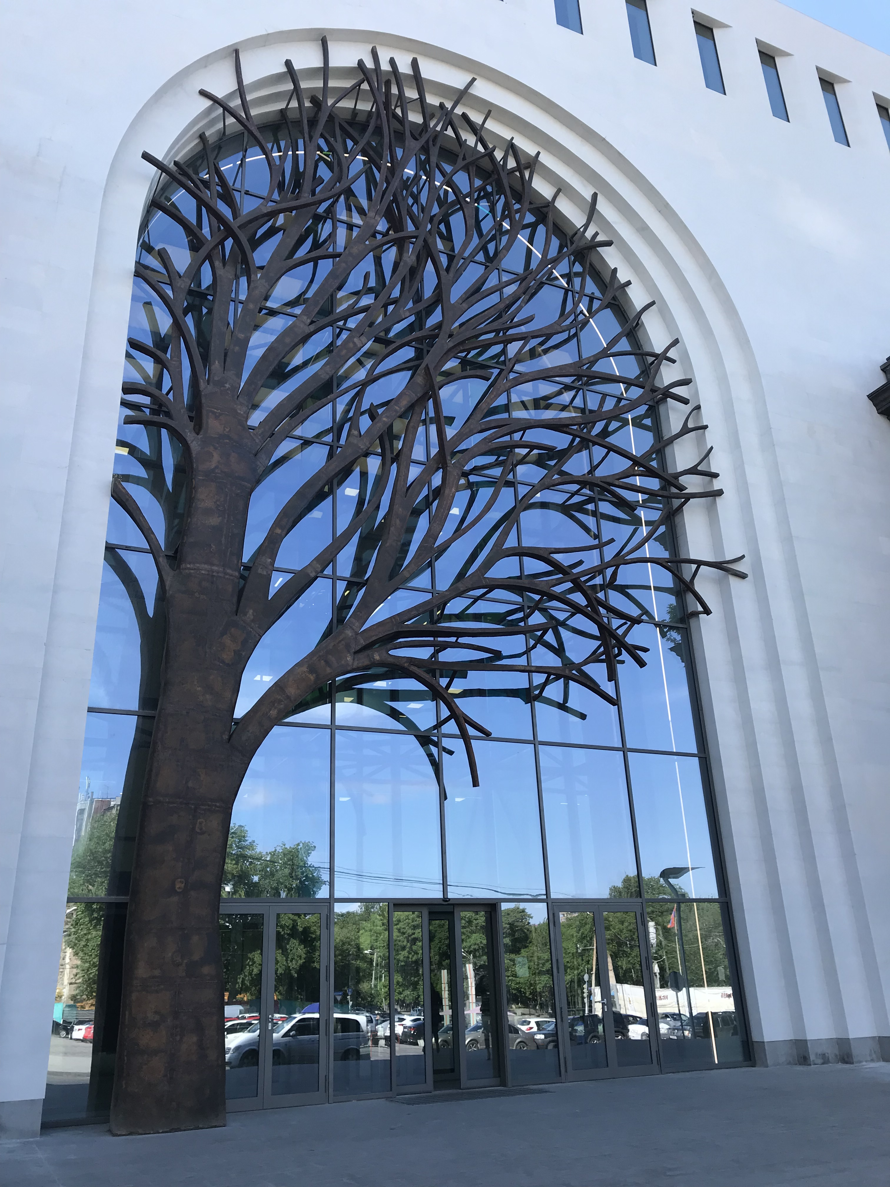 Kamar, Yerevan